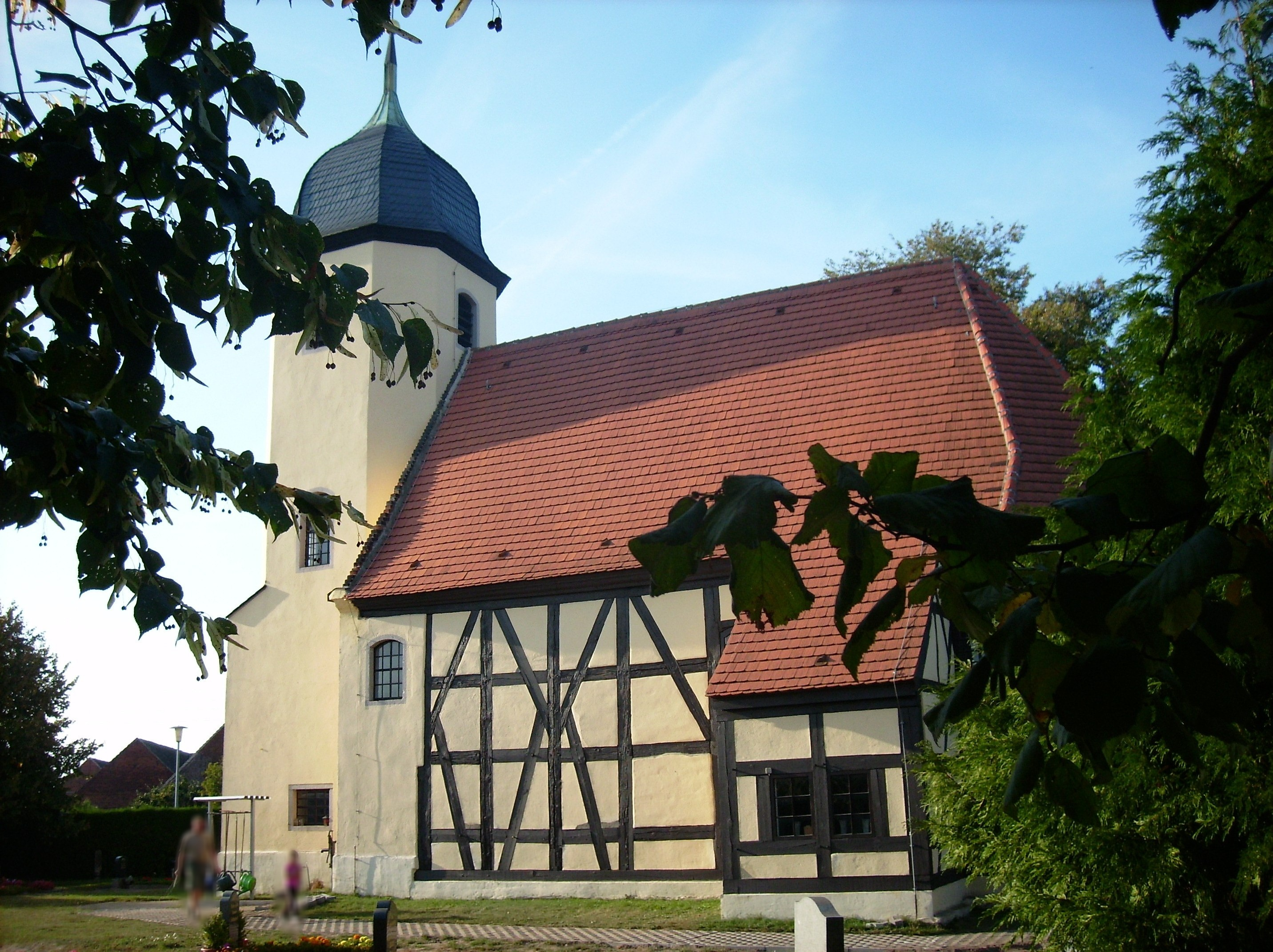 Church of the village of Döbrichau (Beilrode, Nordsachsen district, Saxony)